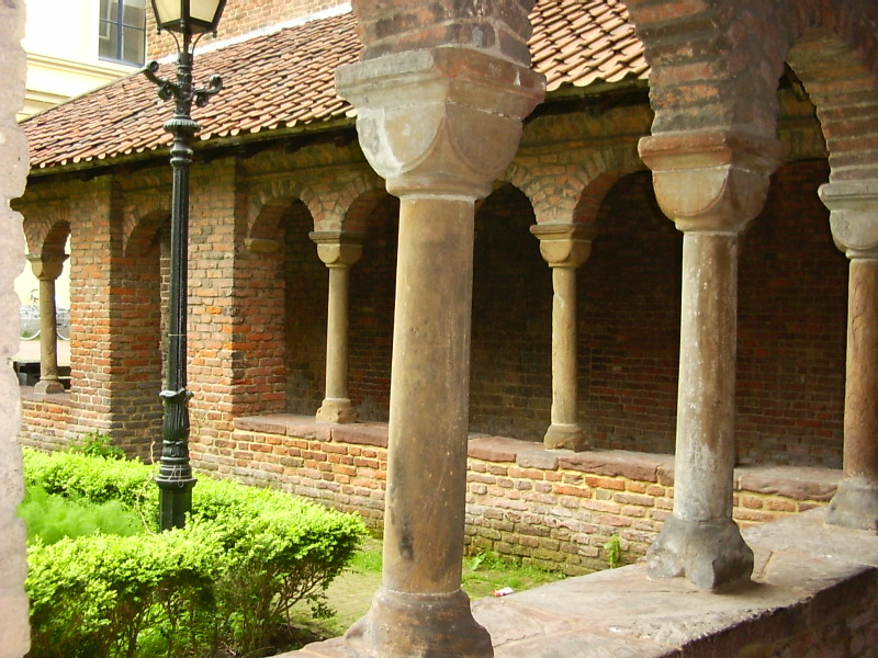 Cloister of a (destroyed) abbey who was built as part of the Cross of Churches in Utrecht (XI century)